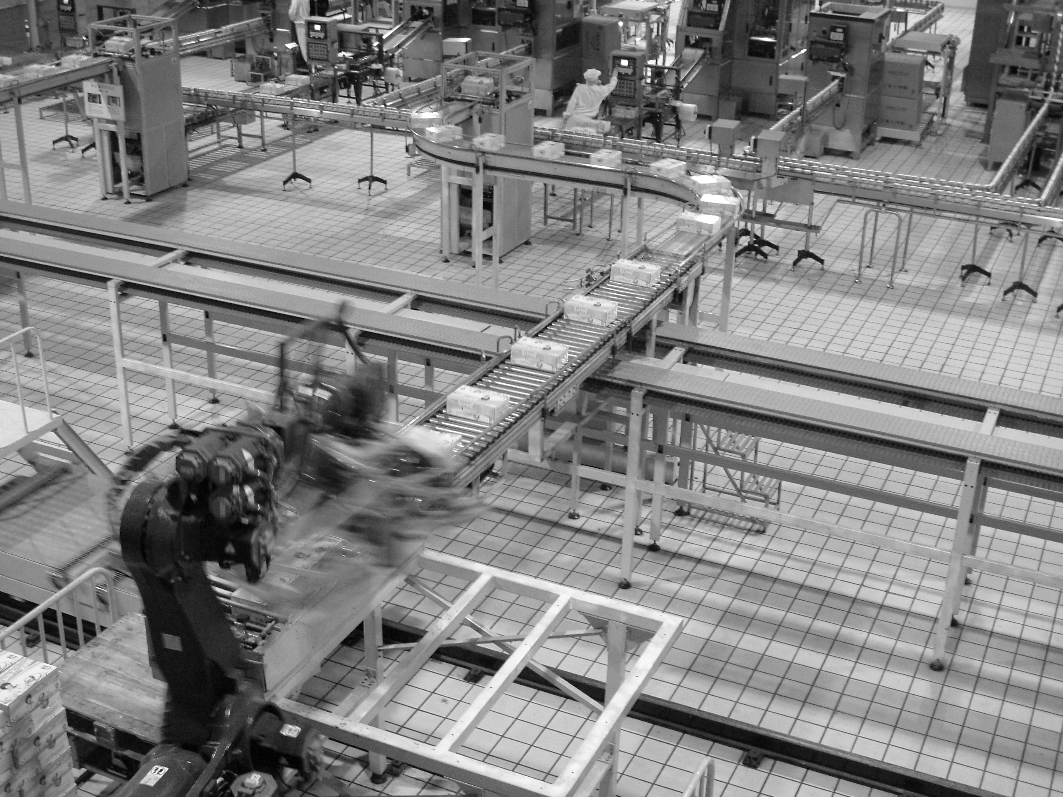 Automated Robots Replace Workers in China